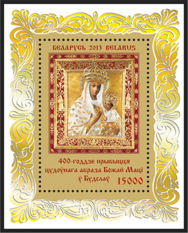 Stamp of Belarus